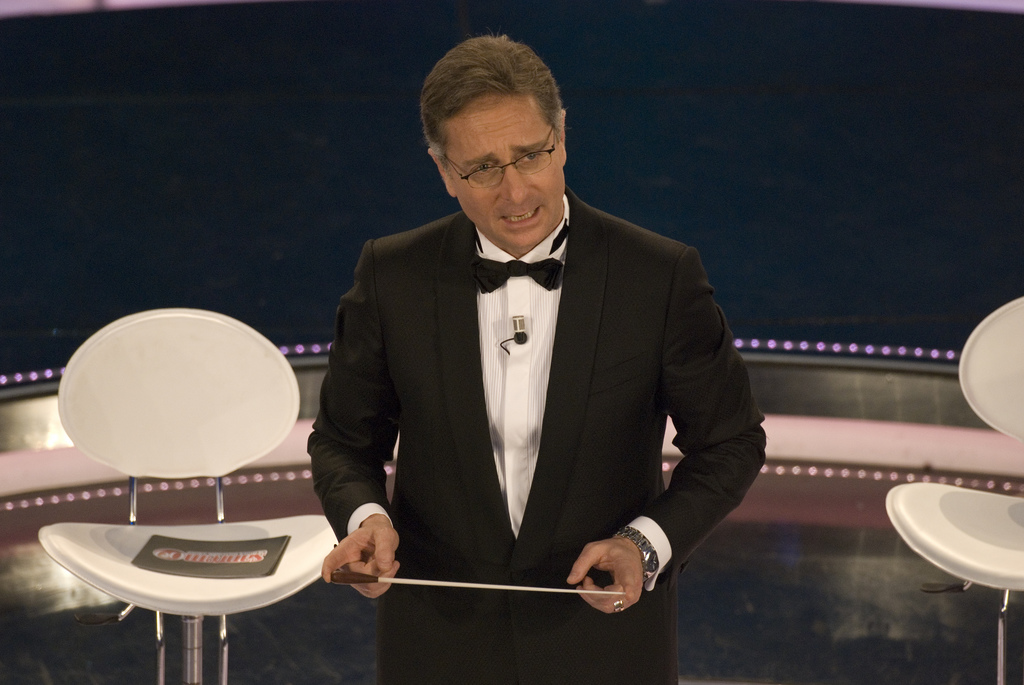 Paolo Bonolis at Sanremo Music Festival